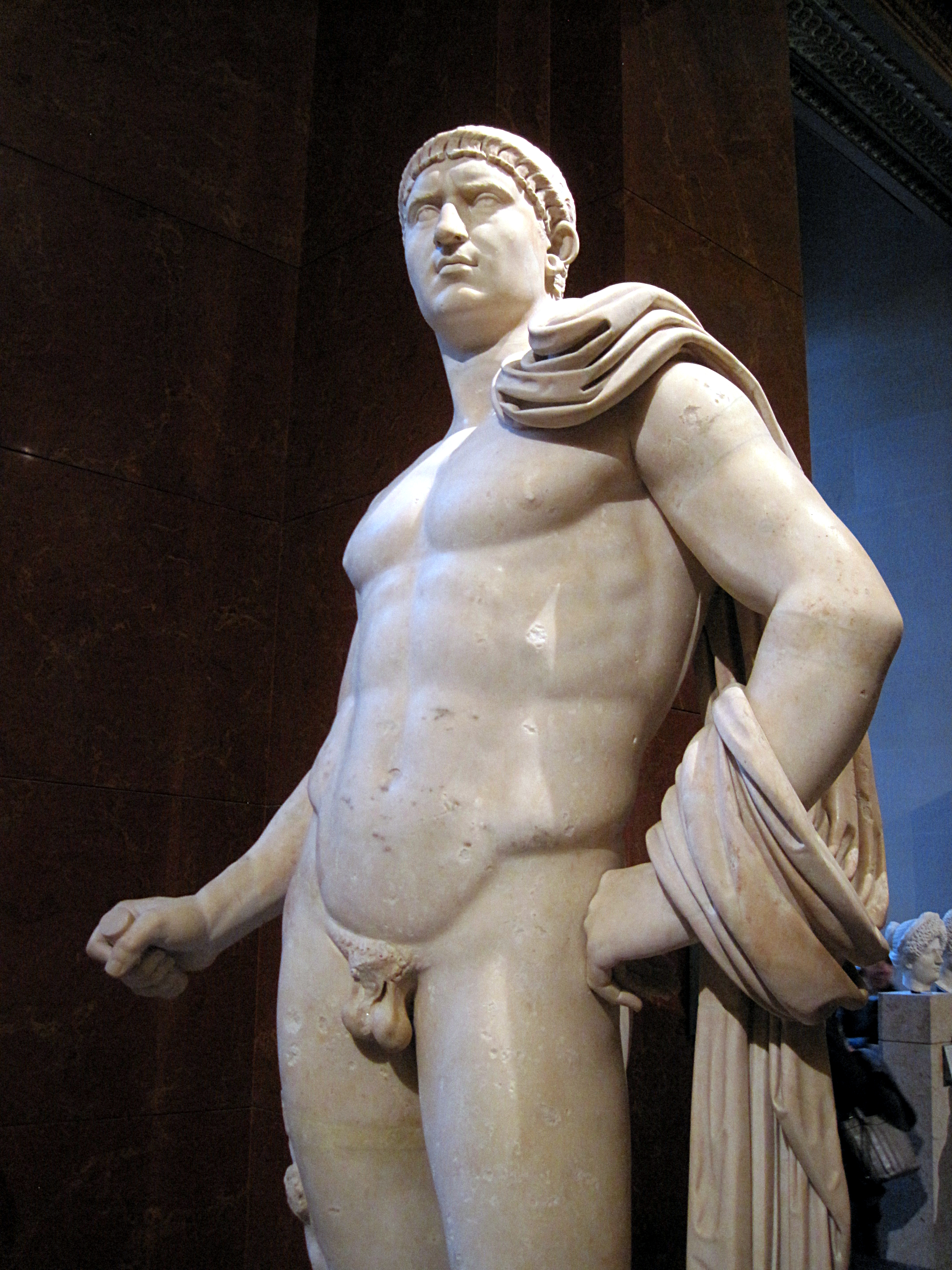 Emperor Otho, marble statue (H.: 218 cm), made by an unknown sculptor in 69 AD Found in the Pontine marshes near Terracina, it was part of the old Braschi collection seized in 1798 by Napoleon. It is currently kept in room 411 of the Denon wing at the Louvre museum in Paris (ref: MR 317) where it was photographed on December 09, 2011